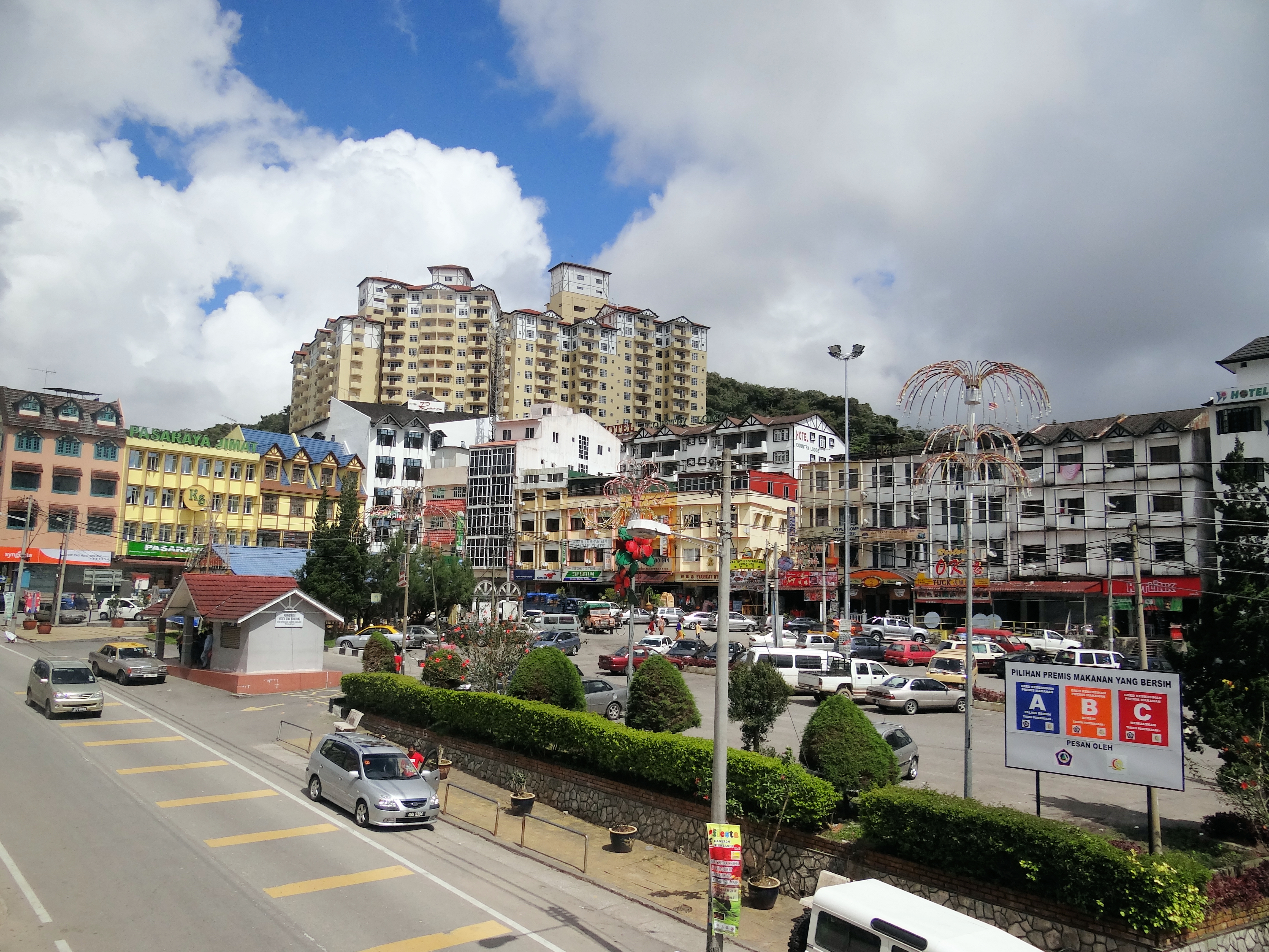 The town centre of Brinchang in the Cameron Highlands, Malaysia. The tall building in the back is the Crown Imperial Court Hotel.